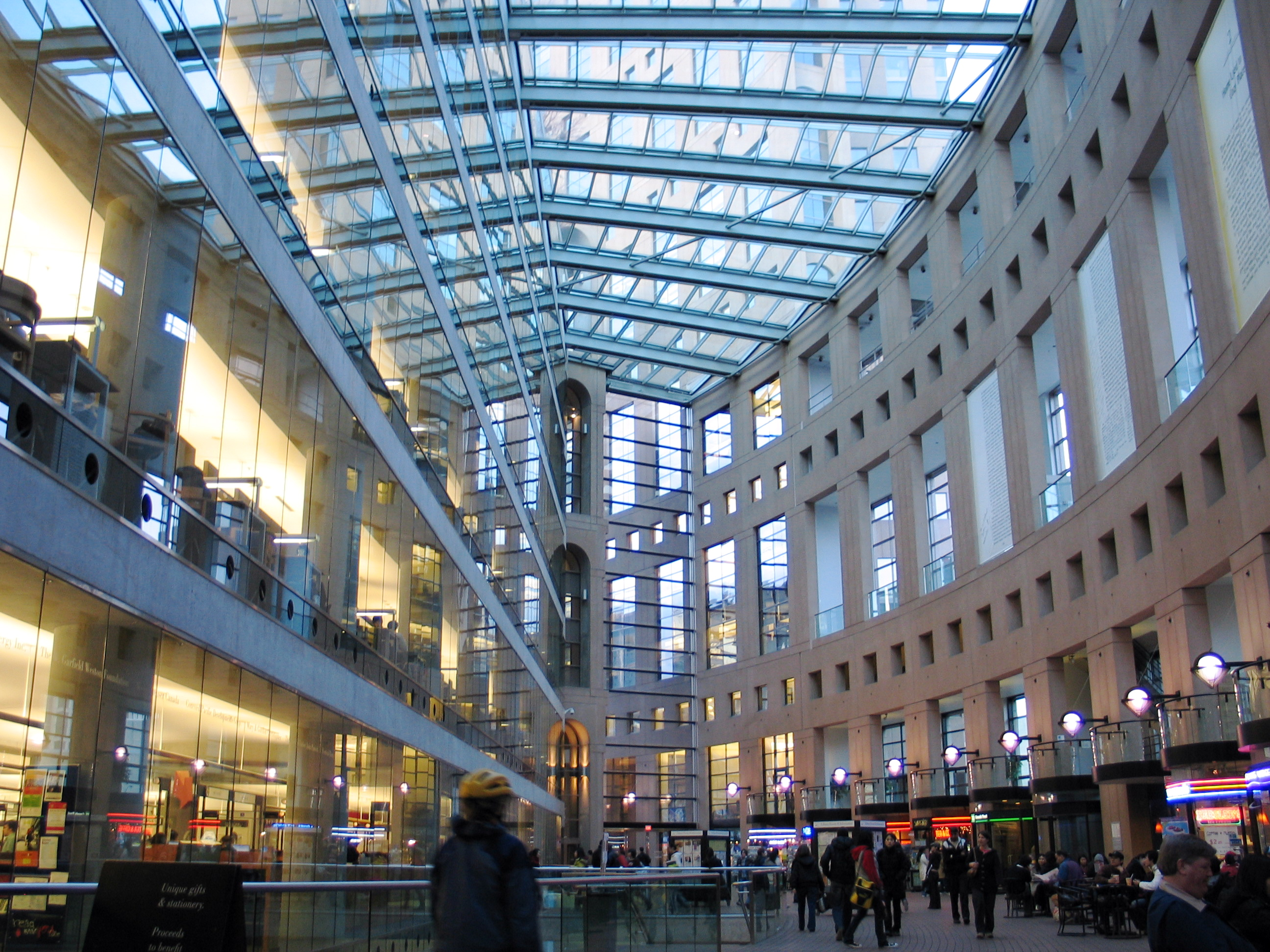 Vancouver Public Library Atrium in Vancouver.